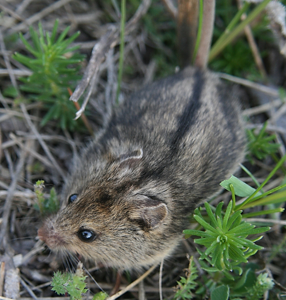 Southern Birch Mouse, image taken in Mezônagymihály, Borsod-Abaúj-Zemplén, Hungary